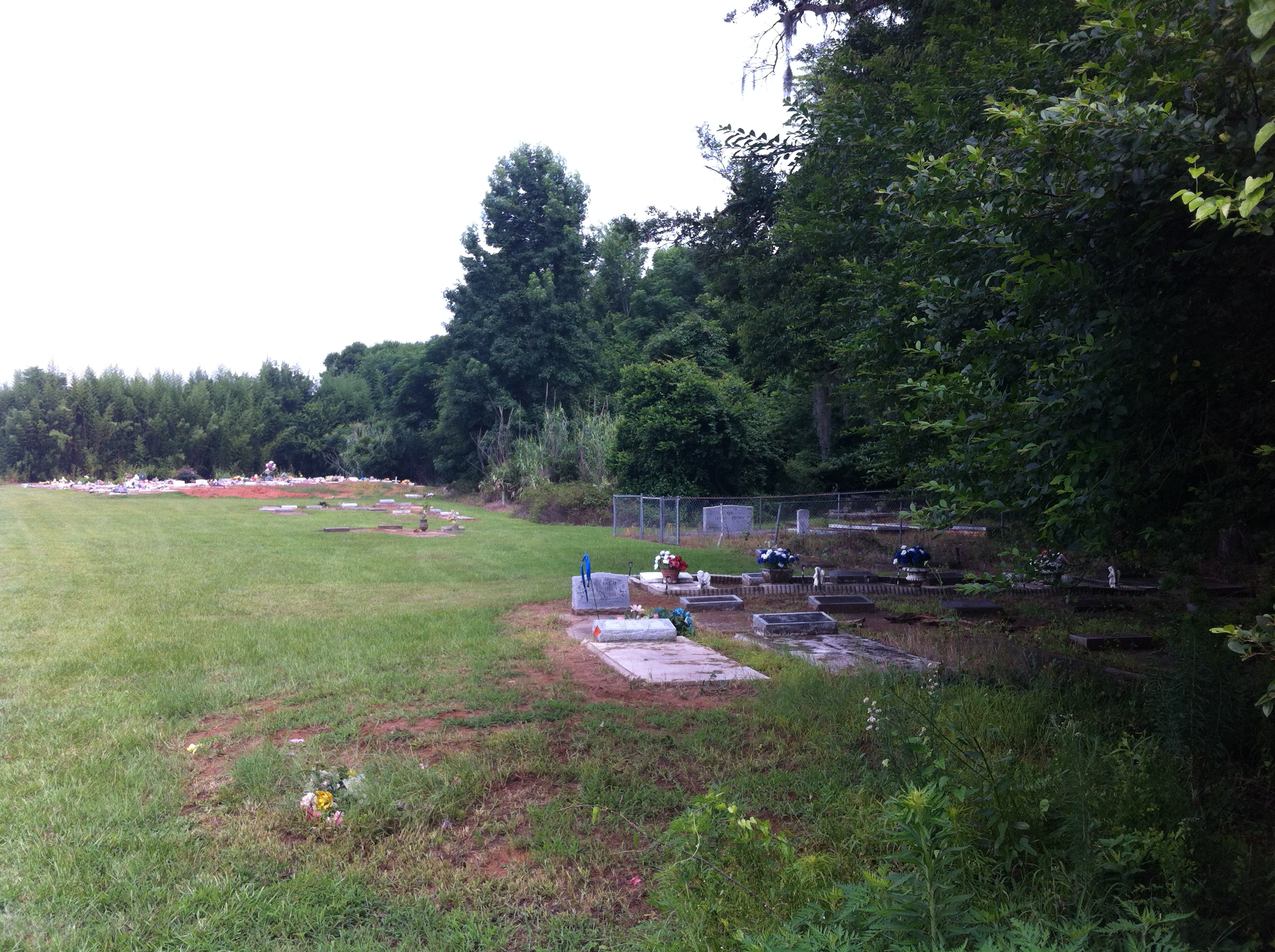 View of the Antioch Cemetery, Montgomery AL. View from north.